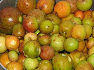 Picked mangaba fruit (Hancornia speciosa)